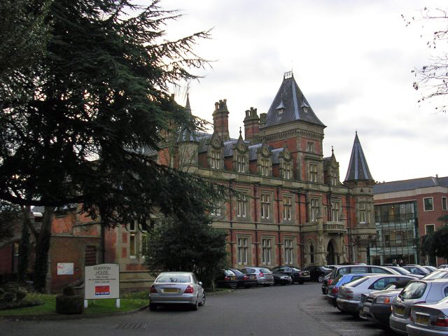 The Towers in Didsbury, home of engineer Daniel Adamson, and where, on 27 June 1882 the meeting was held that led to the construction of the Manchester Ship Canal.